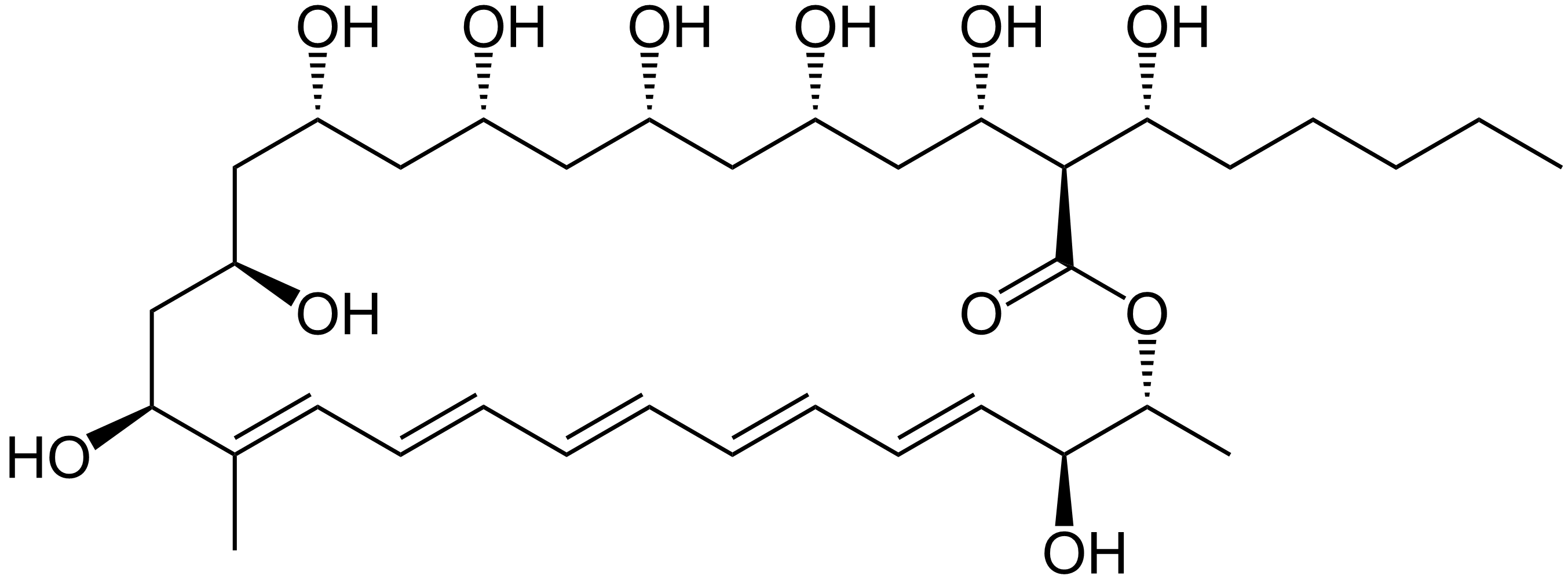 Filipin III chemical structure